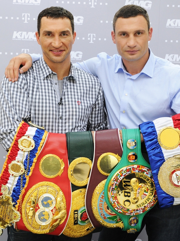 Brothers Wladimir (left) and Vitali (right) Klitschko with their championship belts